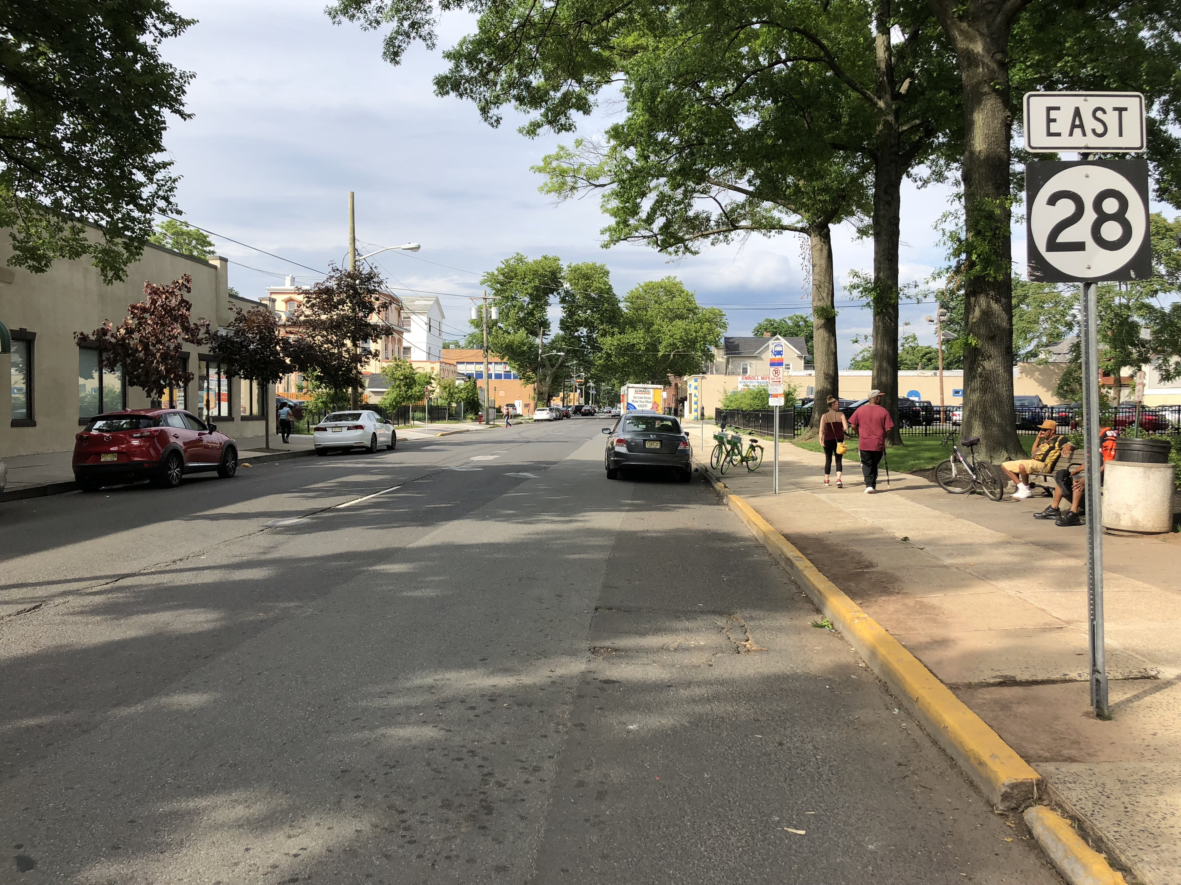 View east along New Jersey State Route 28 (Fifth Street) at Watchung Avenue in Plainfield, Union County, New Jersey